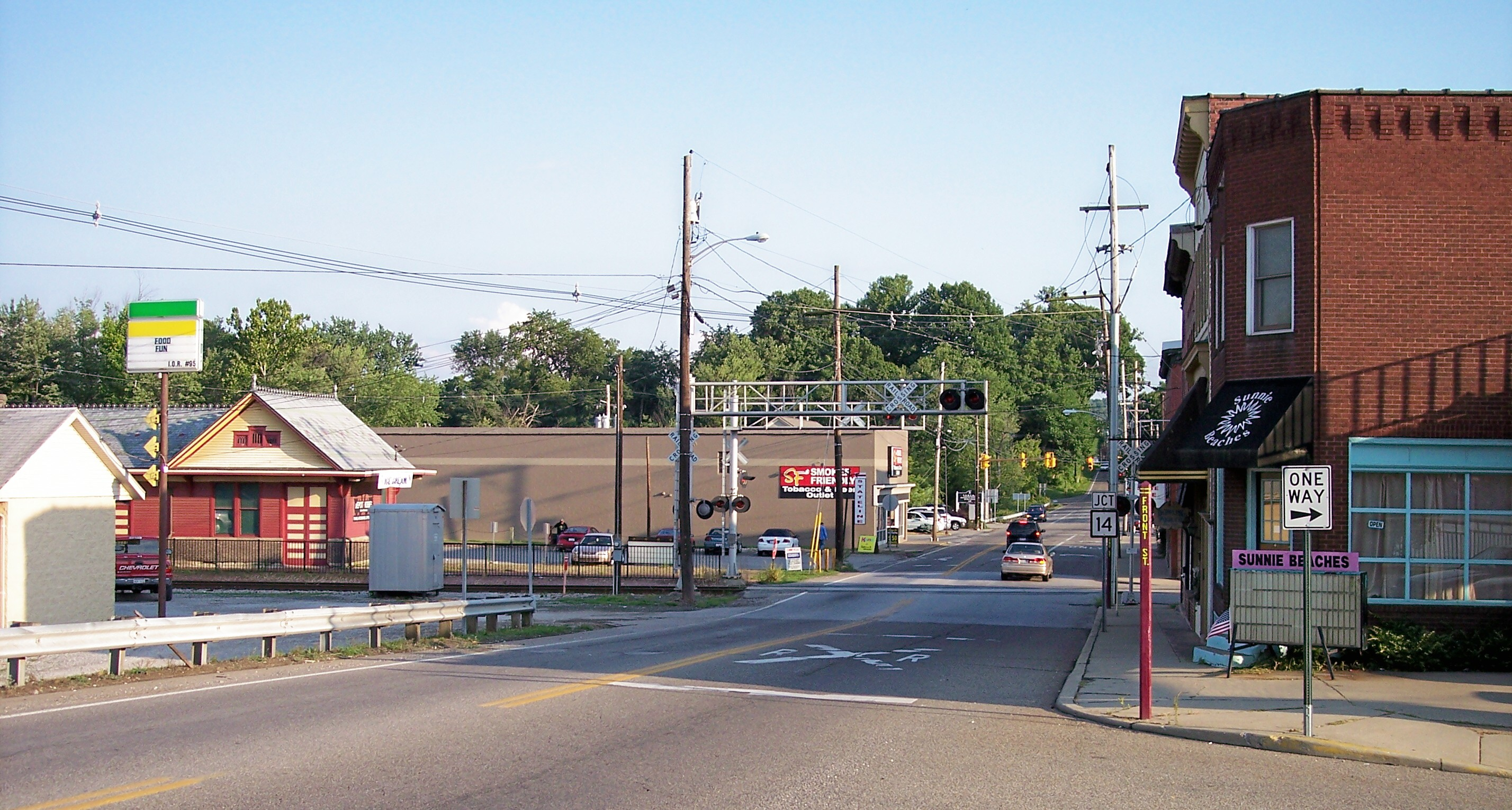 Highland Avenue in Williamstown, West Virginia, as viewed from the foot of the Williamstown Bridge.